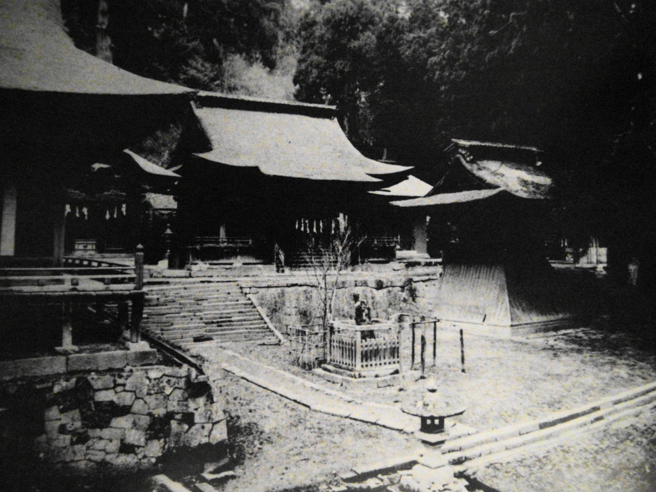 Kanazakura shrine Photography of 1912